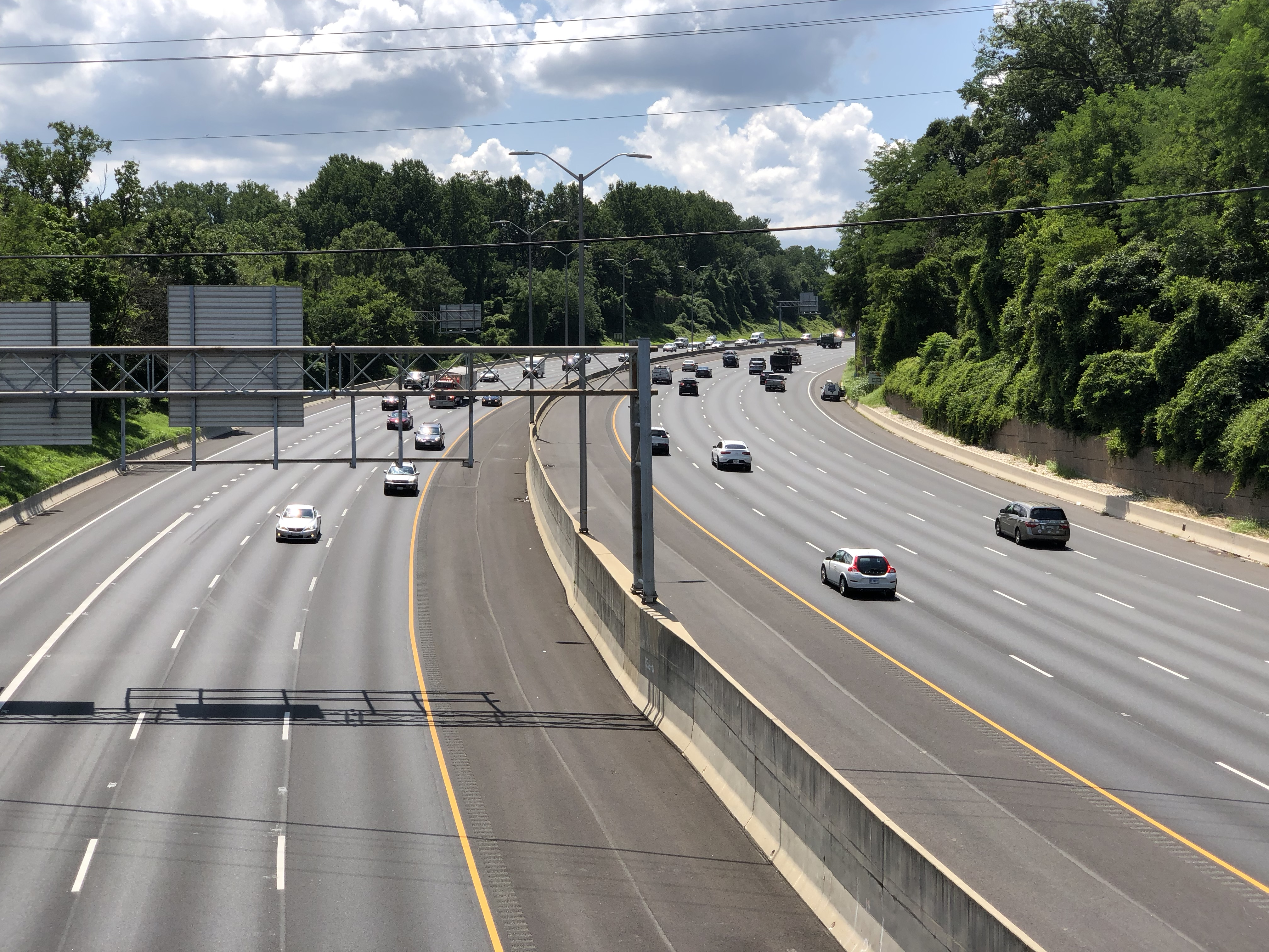 View southwest along Interstate 695 (Baltimore Beltway) from the overpass for Maryland State Route 25 (Falls Road) in Pikesville, Baltimore County, Maryland